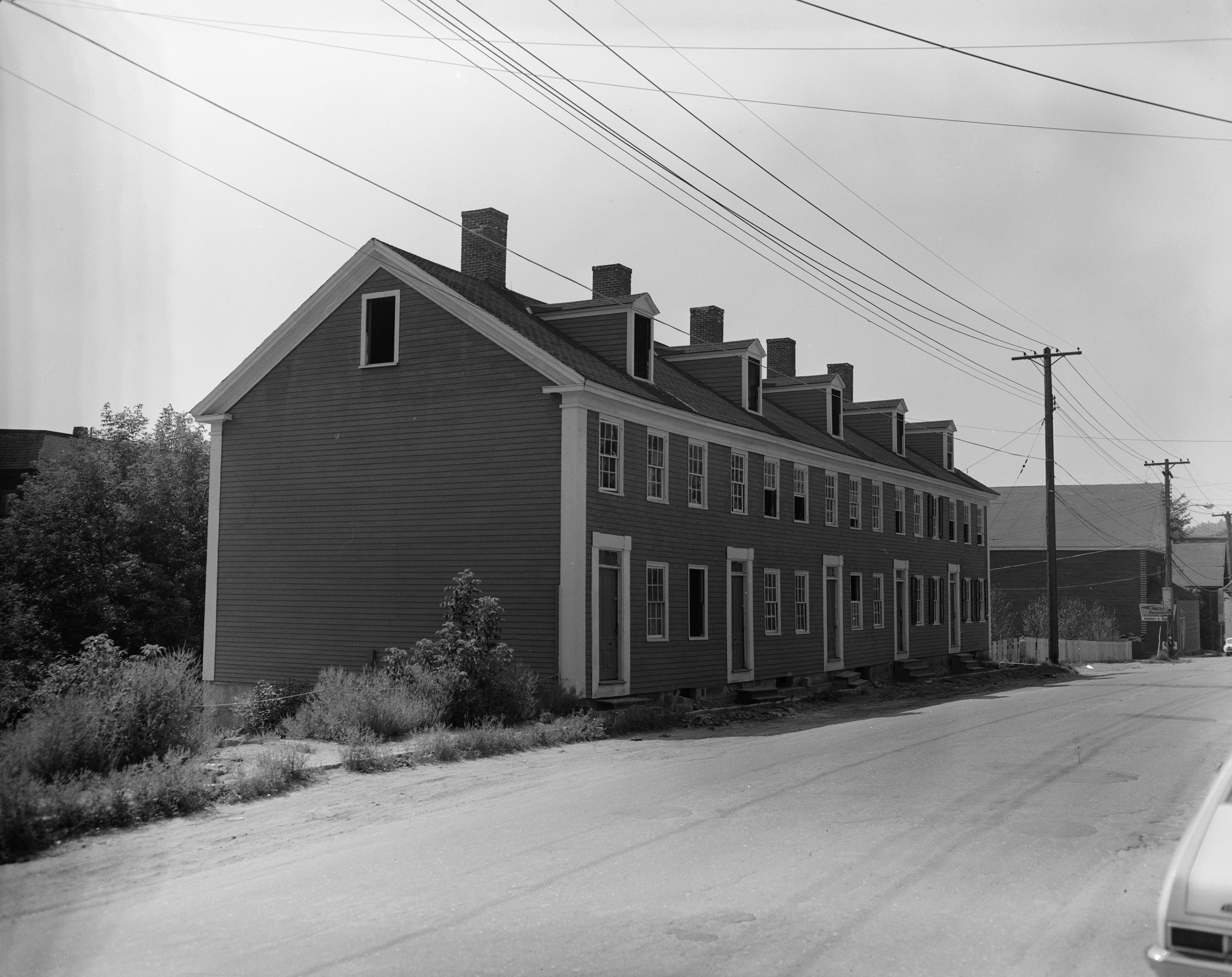 Front of a rowhouse, located at 106-114 Second Street in Hallowell, Maine, United States. Built in 1840, it is listed on the National Register of Historic Places.